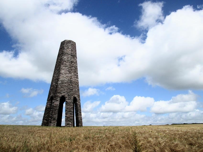 A view of the daymark, near Kingswear